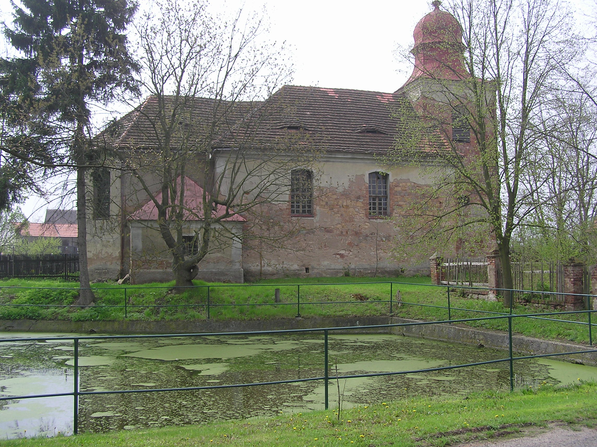 Church of Assumption of Virgin Mary in Strojetice